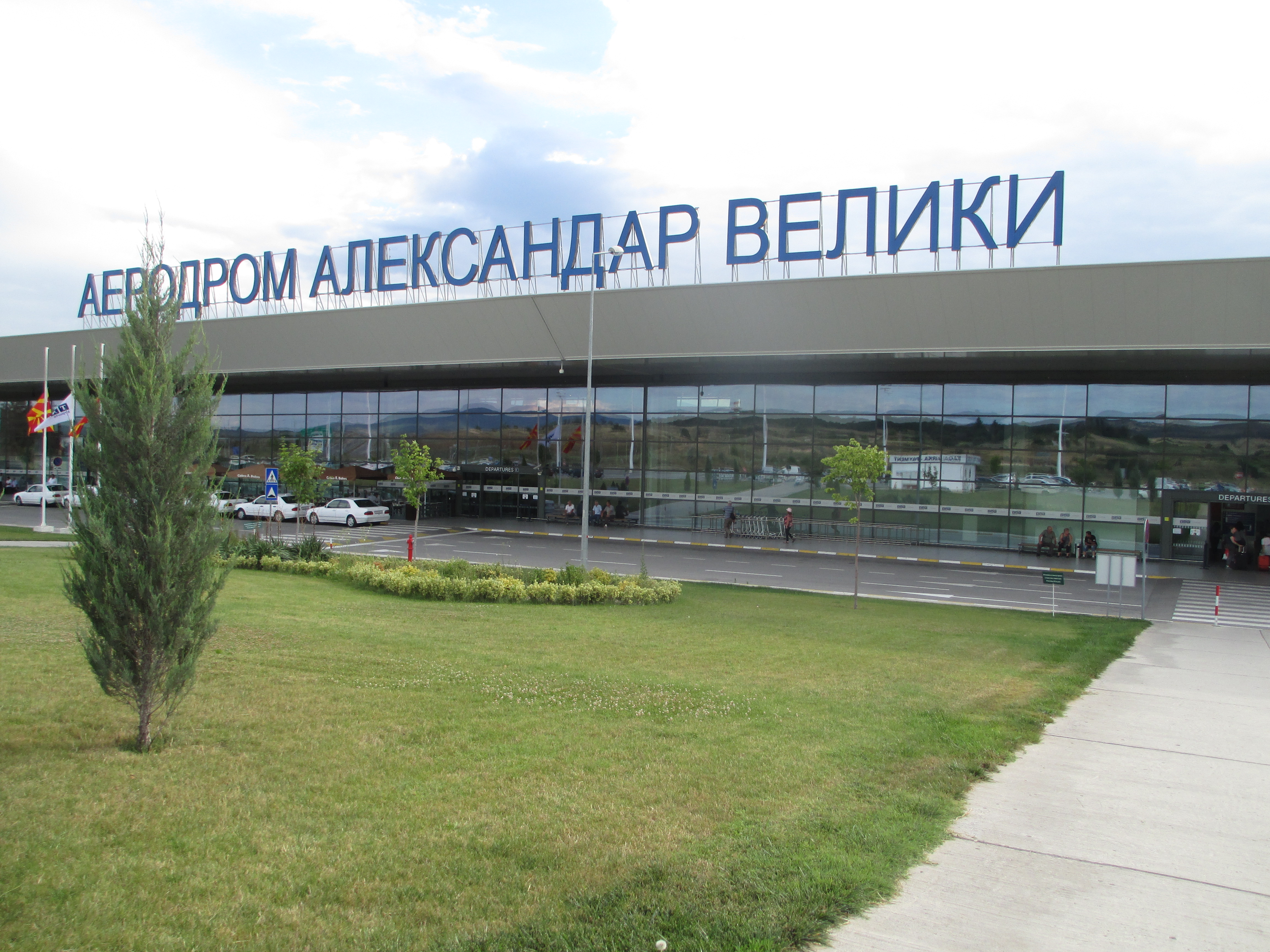 skopje (alexander the great) airport